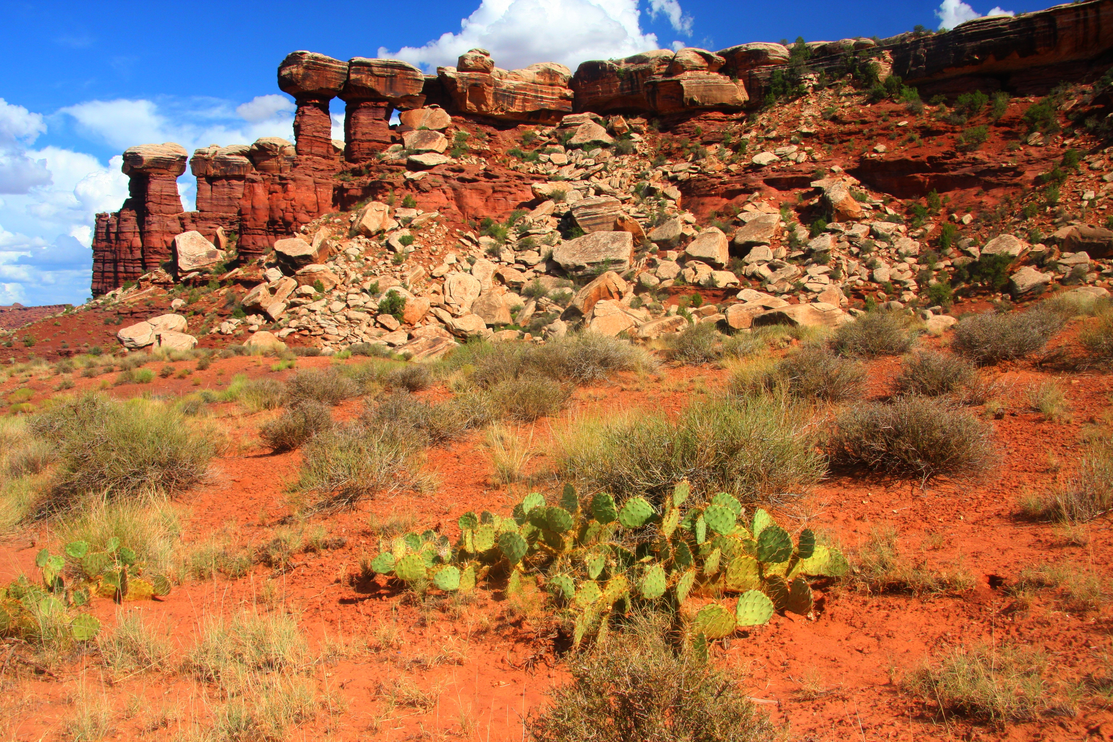 Opuntia polyacantha in Canyonlands National Park near Shafer Road